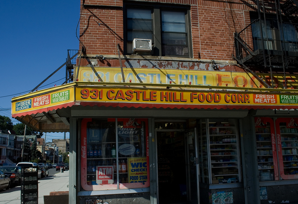 Bodega in the Castle Hill section of the Bronx